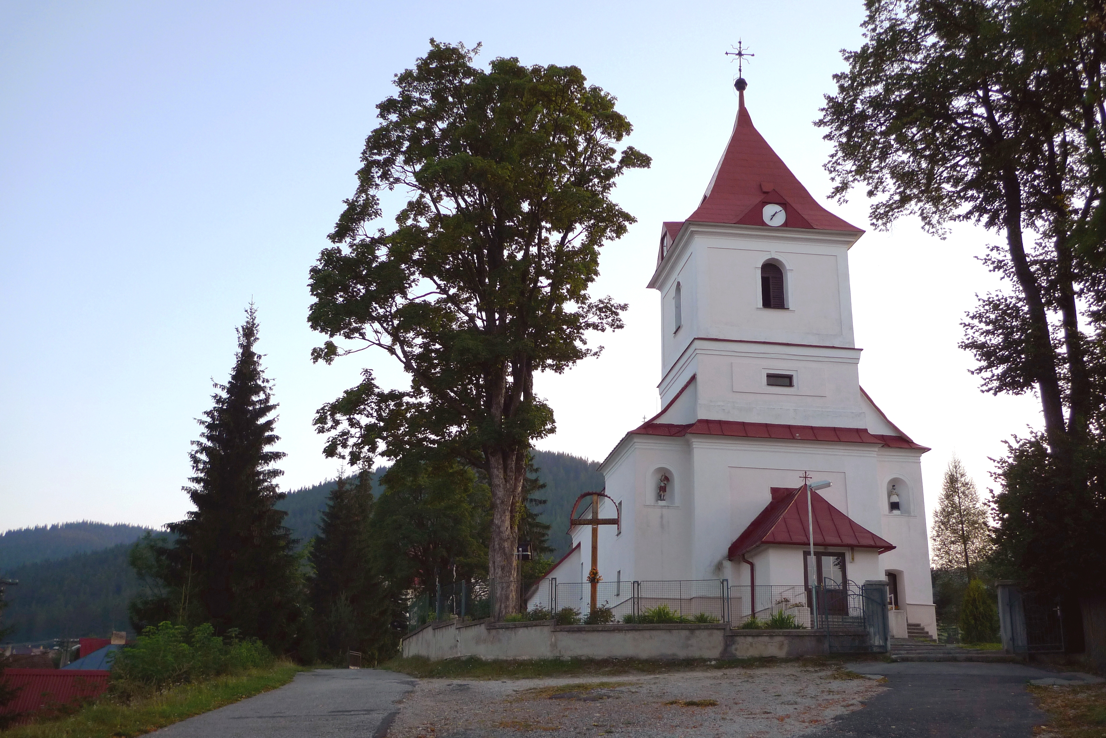 Liptovská Teplička in Slovakia - church